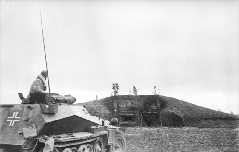 USSR - German light observation vehicle (SdKfz 253) with the crew in front of a camouflaged bunker